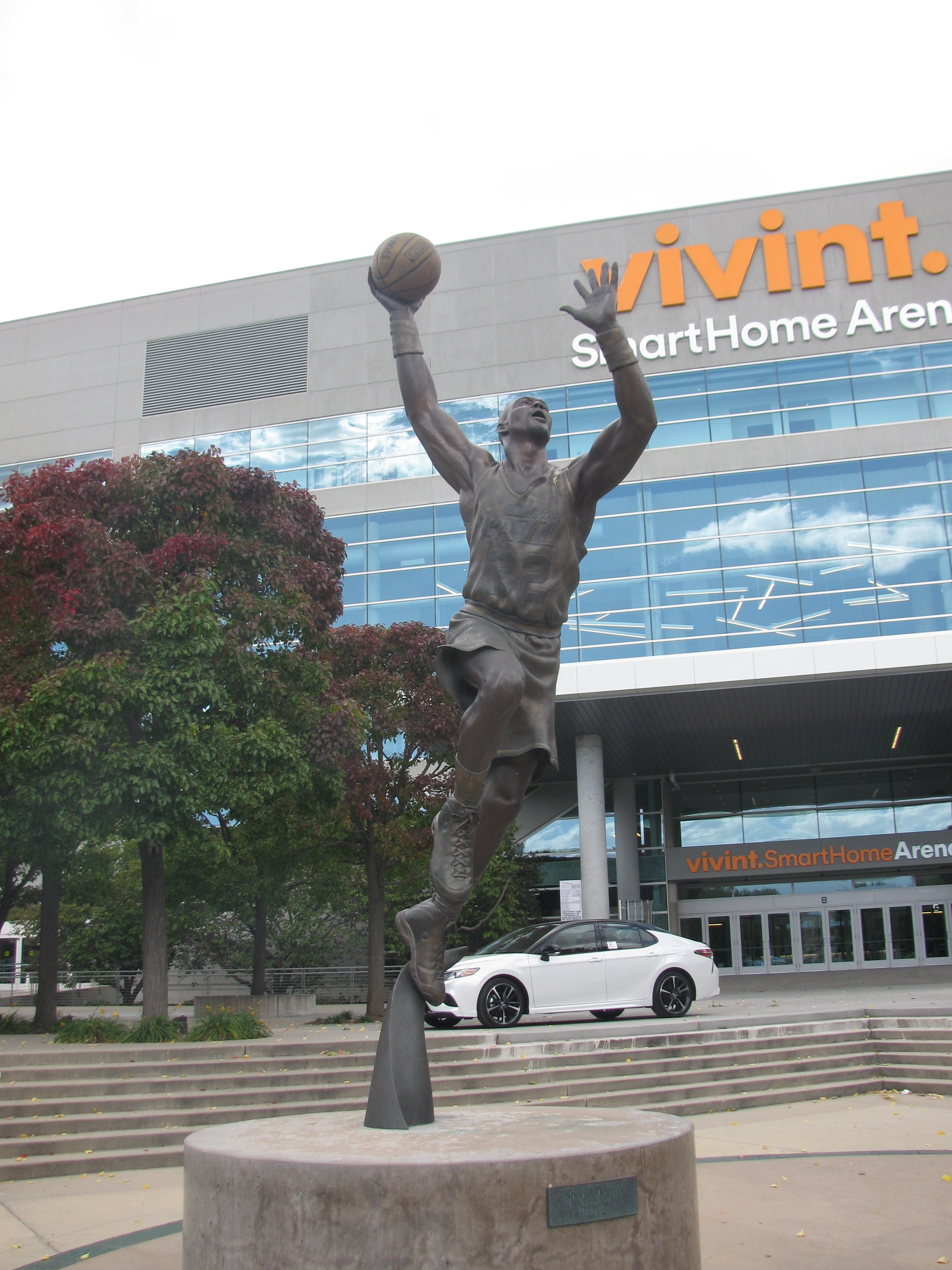 Statue of Karl Malone standing in front of Vivint Smart Home Arena, in Salt Lake City, Utah, United States.